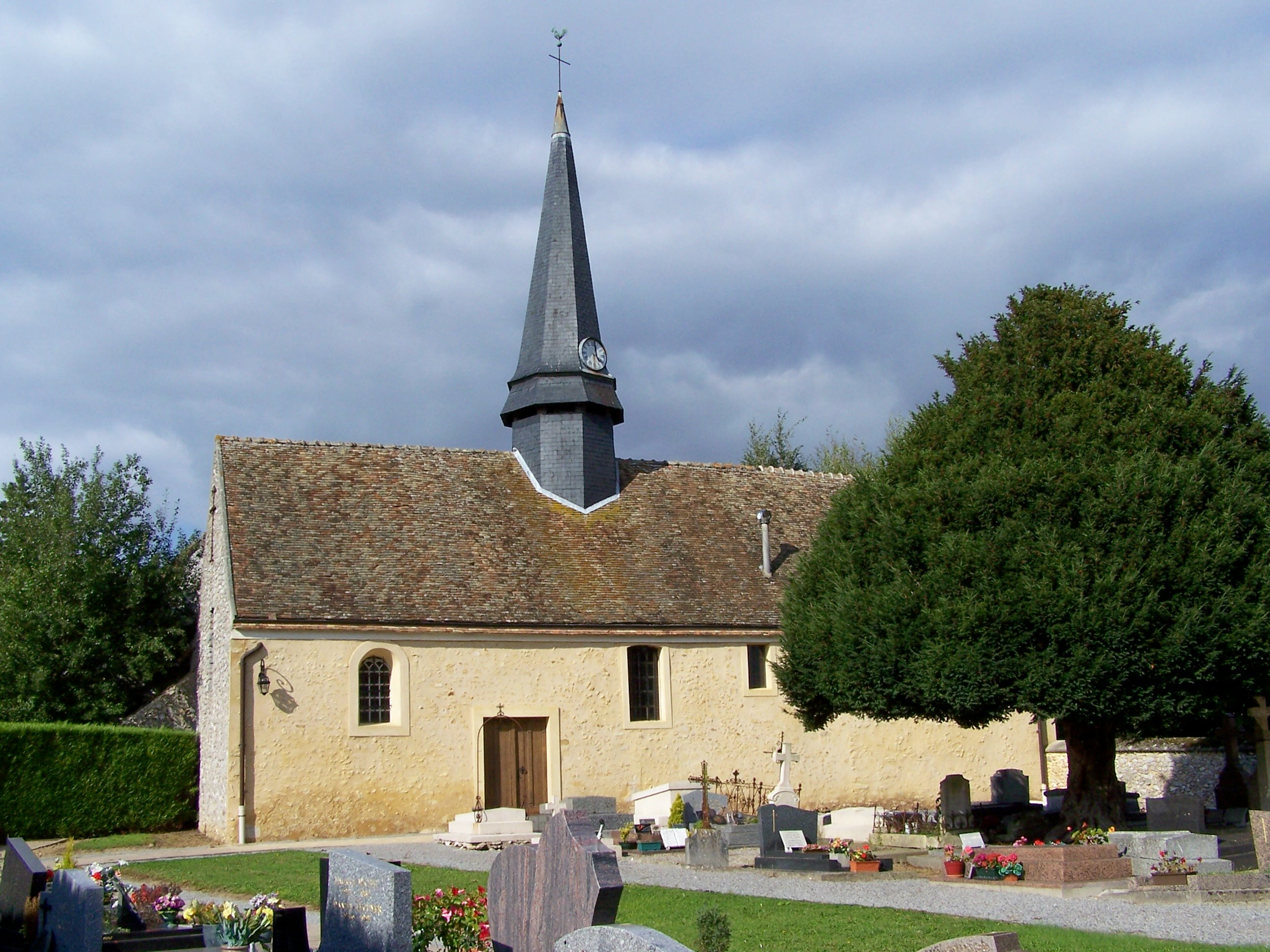 Church Saint-Cloud of Osmoy (Yvelines, France)